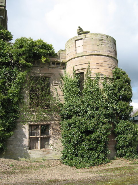 North East tower of Barmoor castle